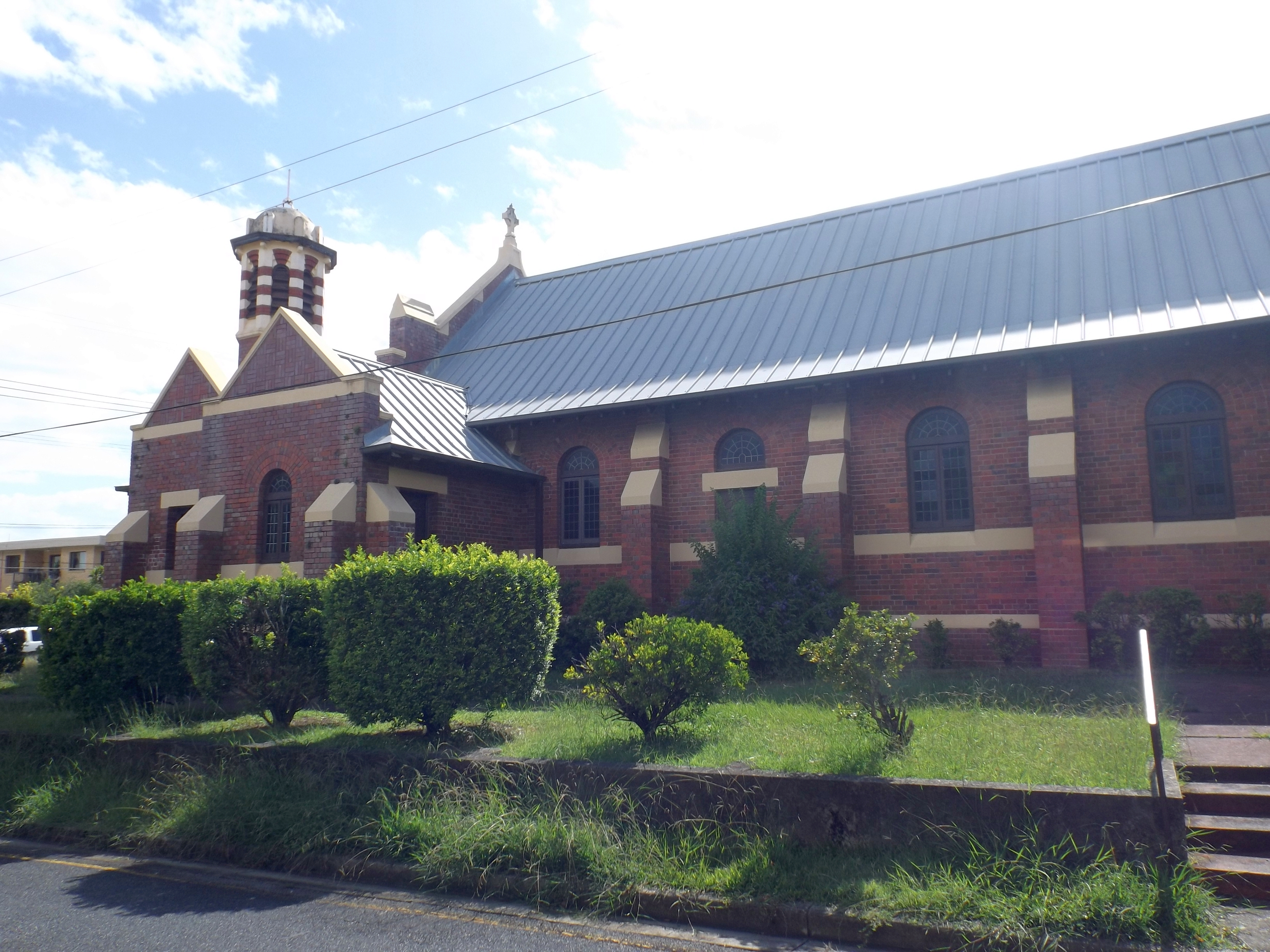 Photo of St Pauls Anglican Church from Balmoral Terrace in East Brisbane, Brisbane, Queensland, Australia.